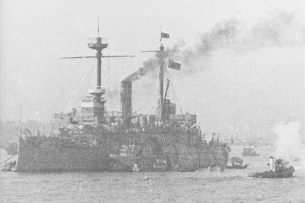 Photo of Japanese repair ship ASAHI at Shanghai in 1938. She was battle ship until 1921.